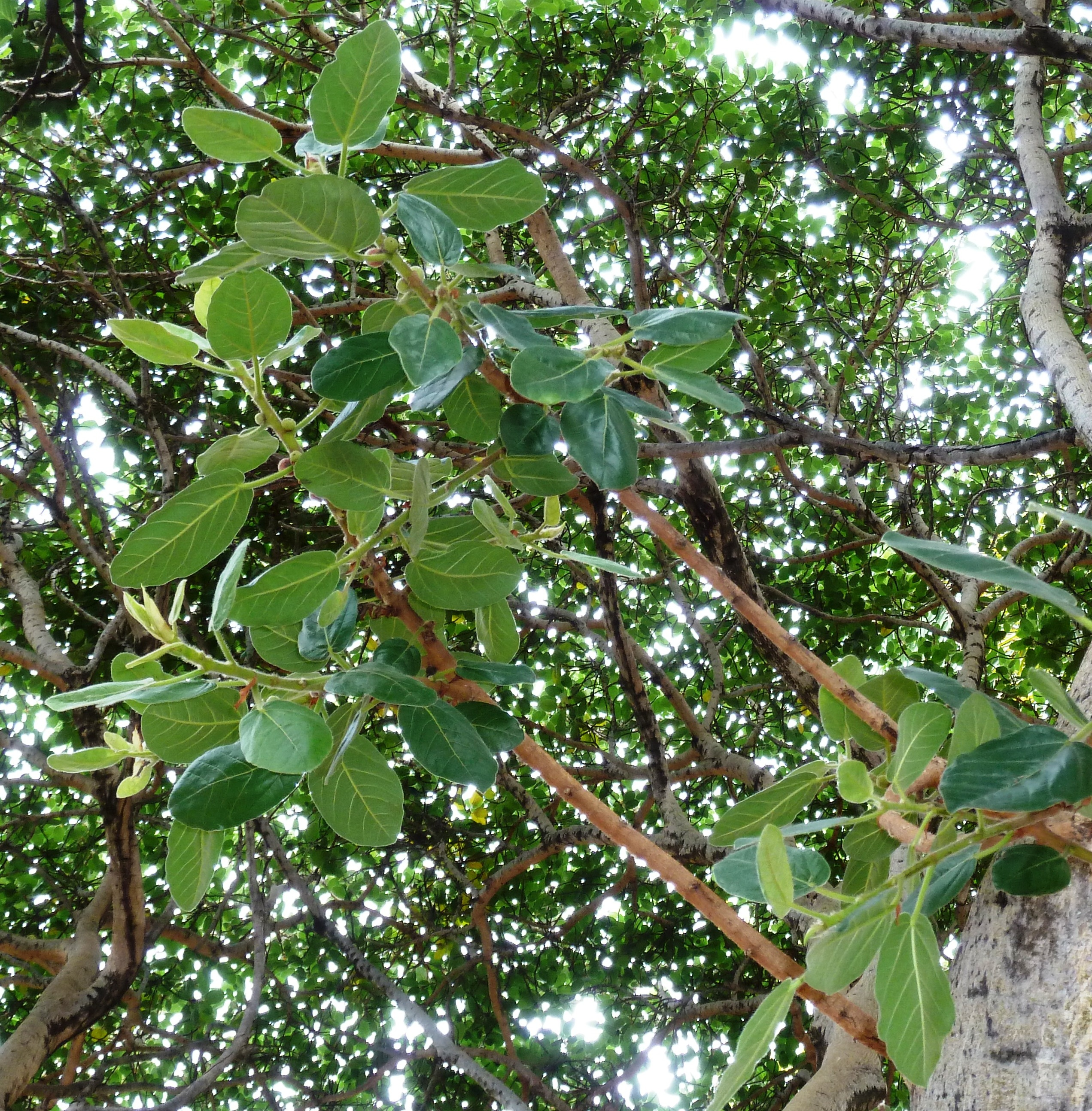 Sub-canopy foliage and fruit of a Mountain fig growing near the Manie van der Schijff Botanical Garden at the University of Pretoria, South Africa